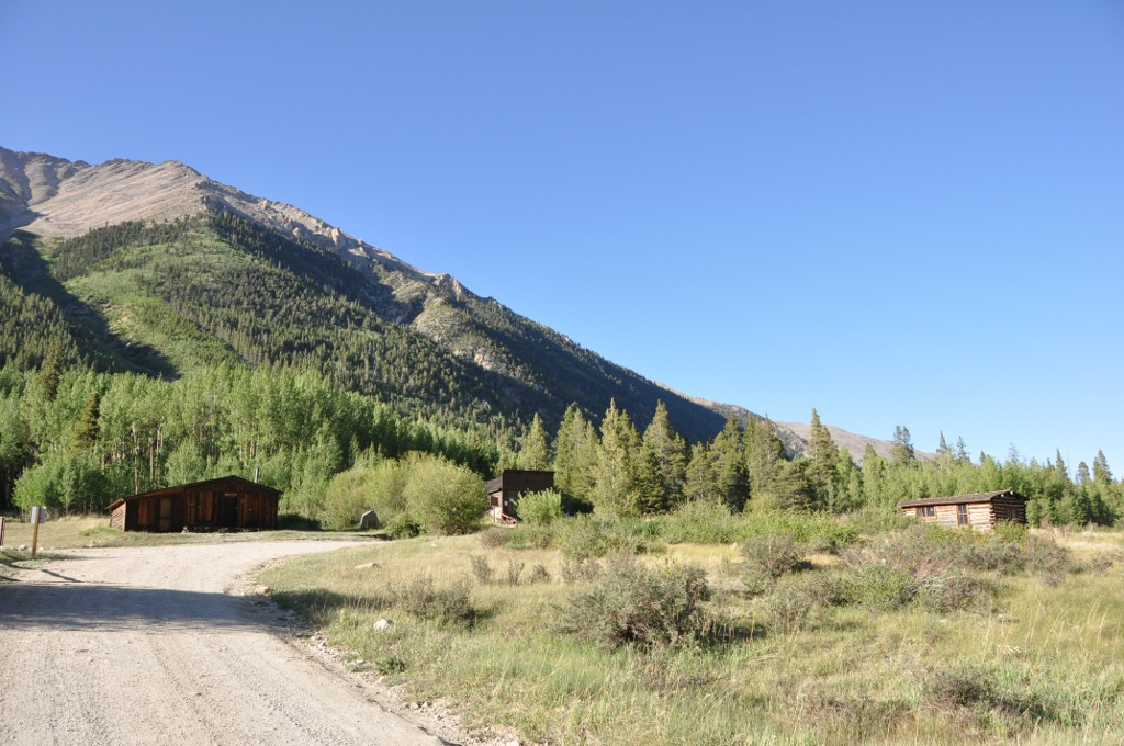 The remnants of the Winfield Mining Camp in the mountains near Granite.